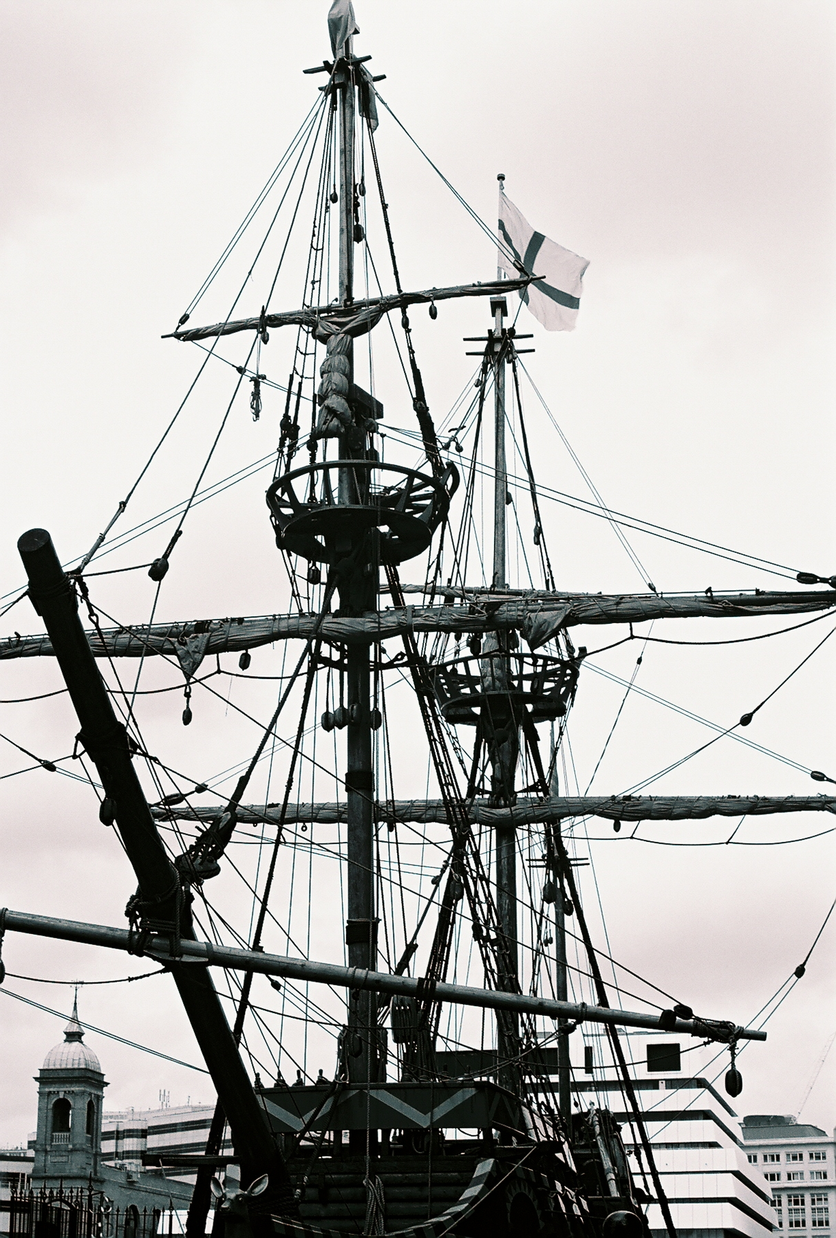 The rigging of an old square rig in London, United Kingdom. Photograph taken by Melongrower.